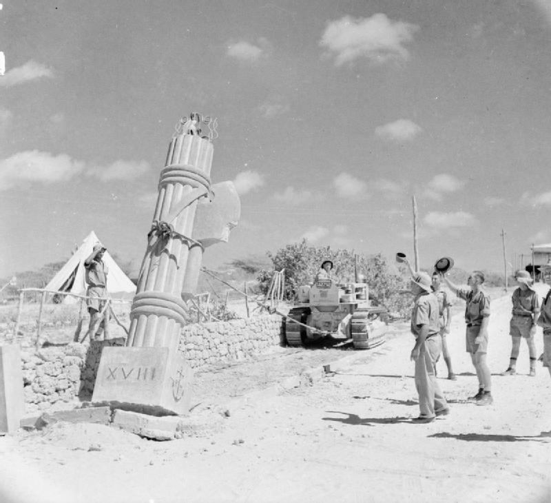 The Campaign in East Africa 1941 British troops use a bulldozer to pull down a fascist stone monument at Kismayu in Italian Somaliland, 11 April 1941.